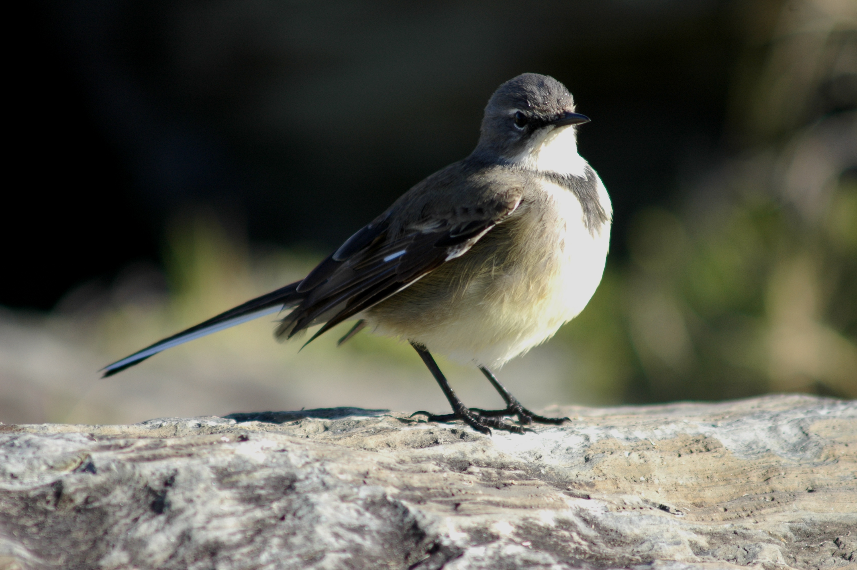 Motacilla capensis photographed in Natures Valley, South Africa